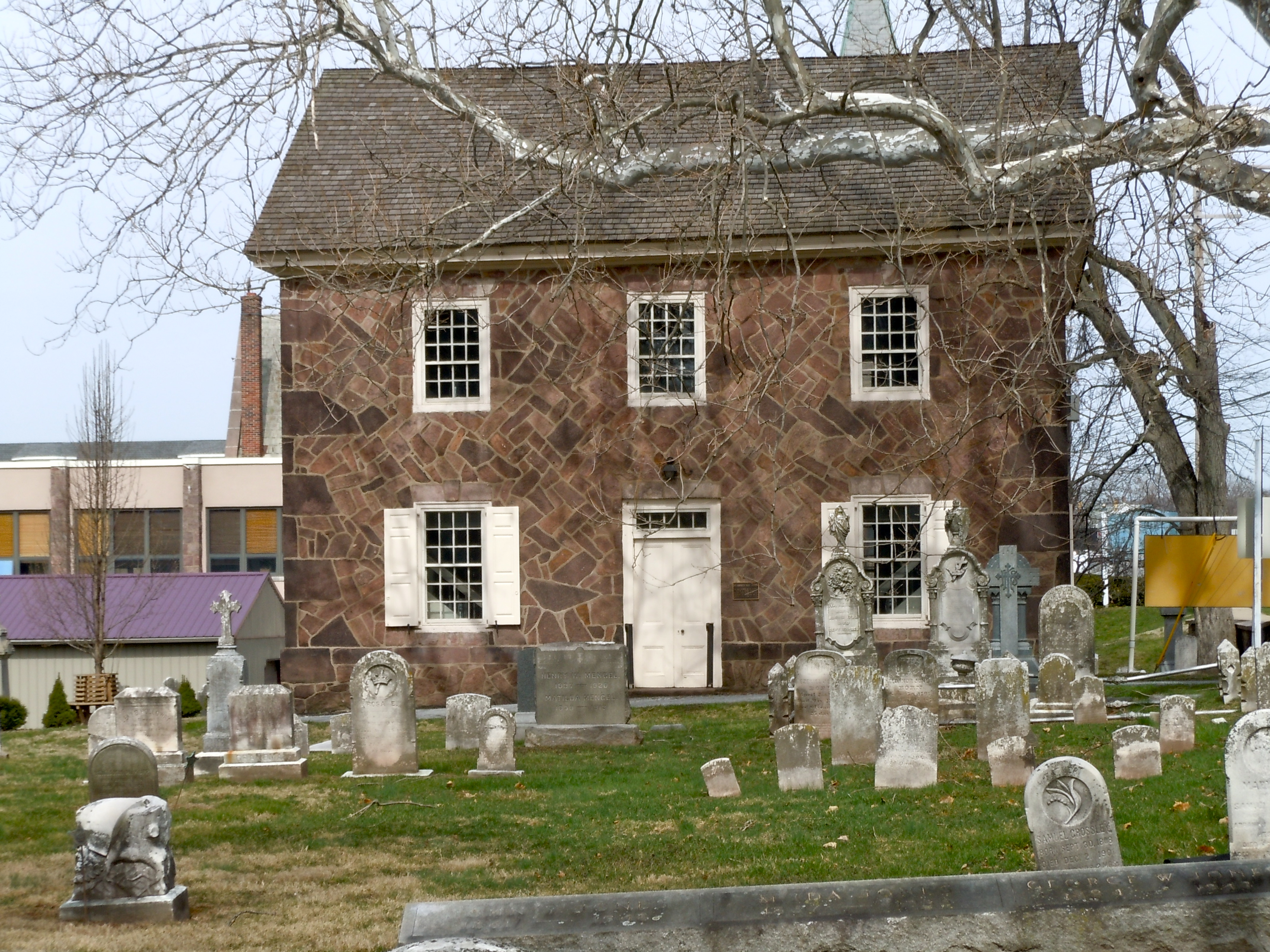 Old St. Gabriel's Episcopal Church on the NRHP since March 8, 1978. On U.S. Route 422 (going south on the split highway, turn at the Wawa if you're headed north) in Douglassville, Amity Township, Berks County, Pennsylvania. This building built 1801, but the congregation goes back to 1720 as a Swedish Lutheran Church, in 1760 changed to Anglican (Protestant Episcopal). The "new" church (1860's?) is behind the old one in the photo (Steeple, chimney). Historical marker (PHMC) in front says Anthony Sadowski is buried in the churchyard.